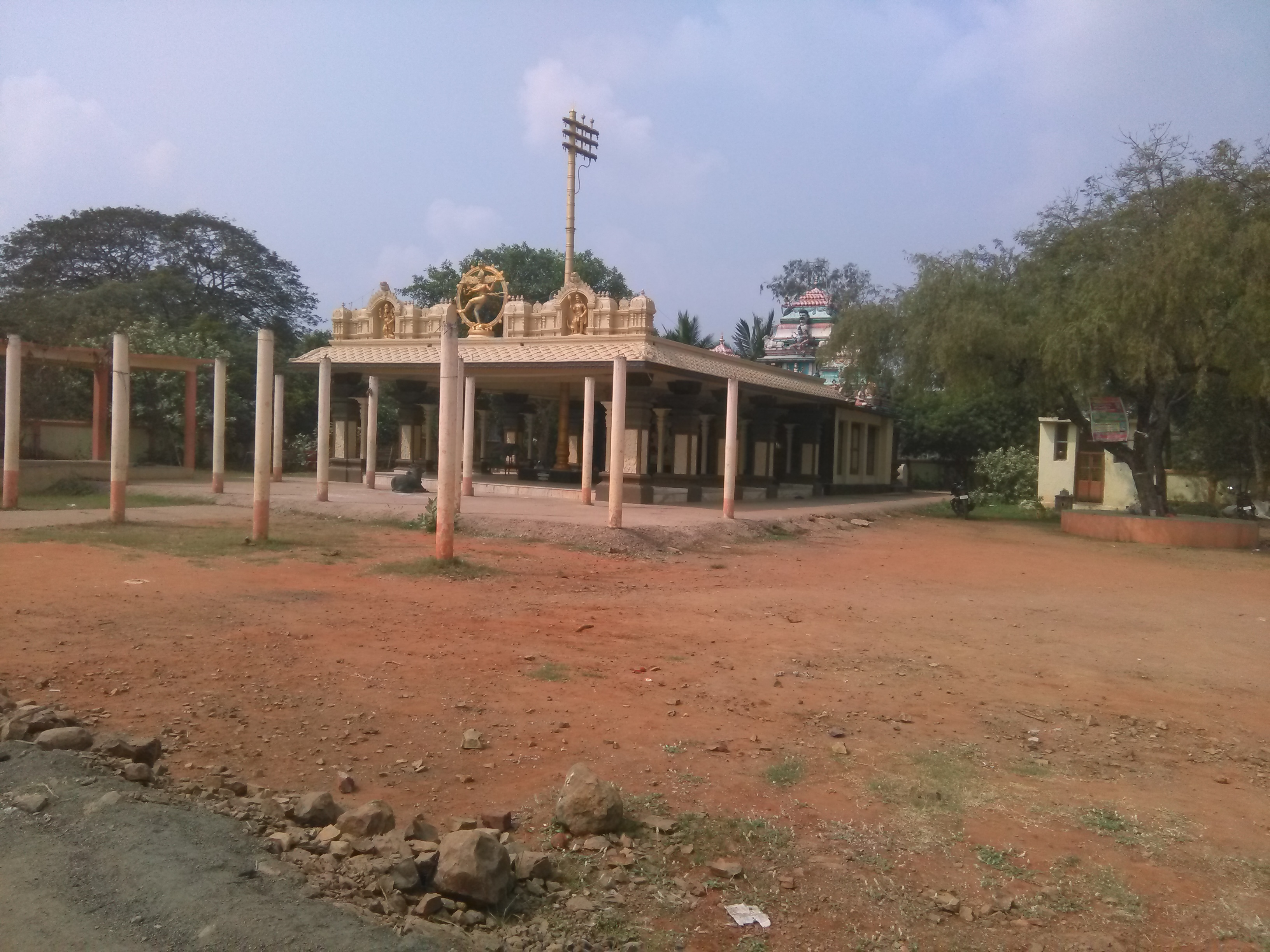 A.P Village of Kata Koteswaram (2)